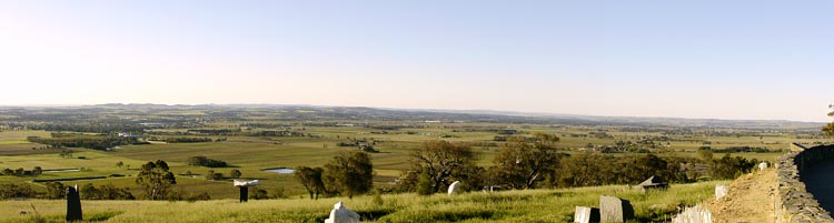 Panorama photo of the view northwest of Mengler's Hill taken by User:Scharks.